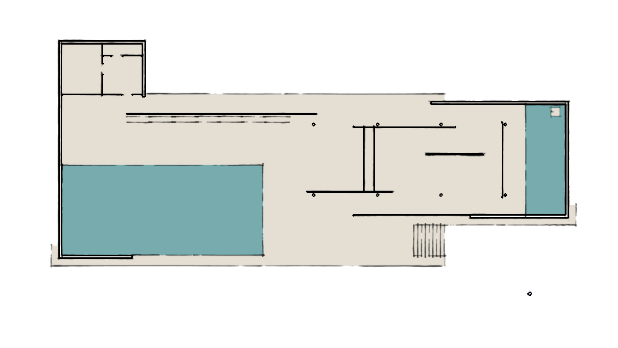 Floor Plan Barcelona Pavillon